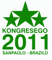 Logo for the 8th Panamerican Congress of Esperanto, in São Paulo, Brazil.